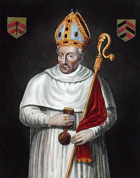 STC188618 Walter de Merton (d.1277), after a painting in the Bodleian Gallery (colour litho) by English School, (19th century). The de Merton arms are shown at at right: Or, three chevrons party per pale azure and gules counter-changed. colour lithograph Private Collection The Stapleton Collection English, out of copyright. Copy of imaginary portrait c.1670, by Wilhelm Sonmans (d.1708) of Walter de Merton (c. 1205 – 1277) Lord Chancellor of England, Archdeacon of Bath, founder of Merton College, Oxford, and Bishop of Rochester. Holding a folded parchment document from which is appended the Great Seal of England. Arms of de Merton at sinister (right). Bodleian Libraries, Oxford [1] )